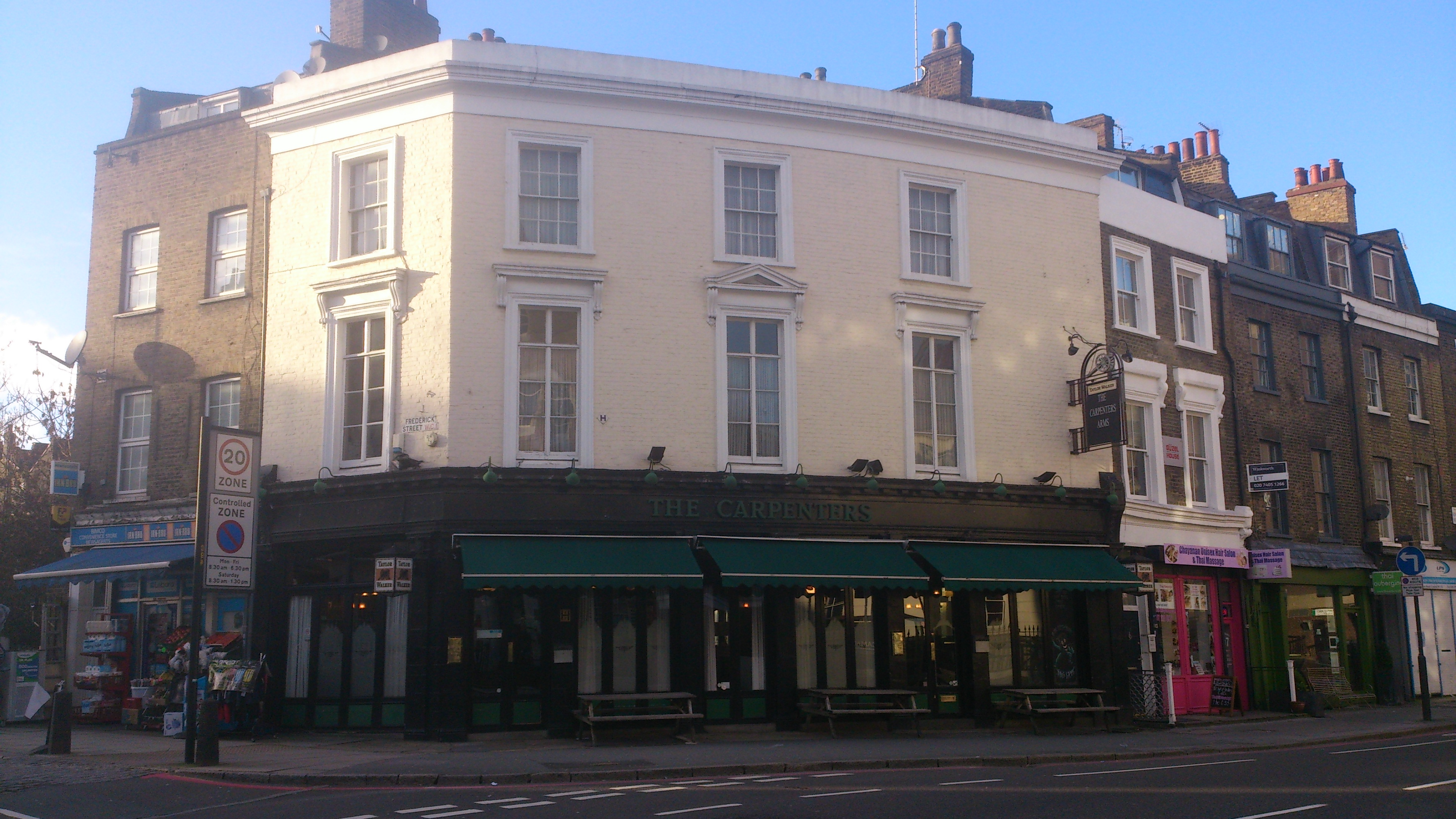 The Carpenters Arms Public House, Kings Cross Road, Kings Cross, London, taken February 2014.